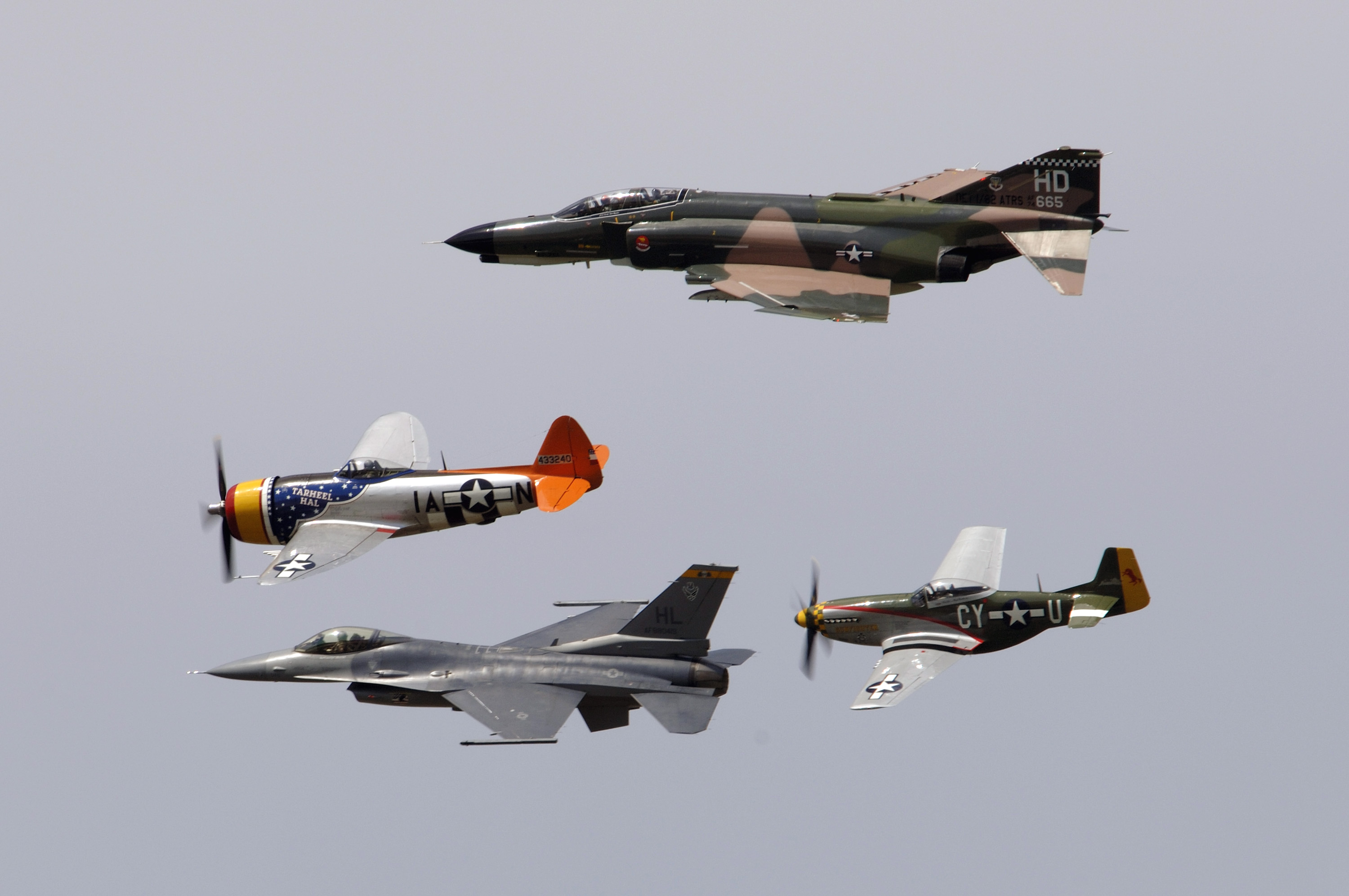 An F-4E Phantom, P-47D Thunderbolt, F-16 Fighting Falcon and P-51D Mustang fly in a heritage flight formation during the 2006 Defenders of Liberty Airshow at Barksdale Air Force Base, La., on Saturday, May 13, 2006